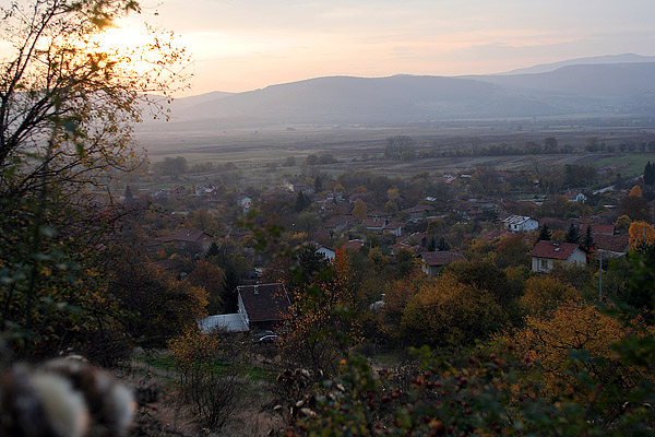 A picture of selo Stargel